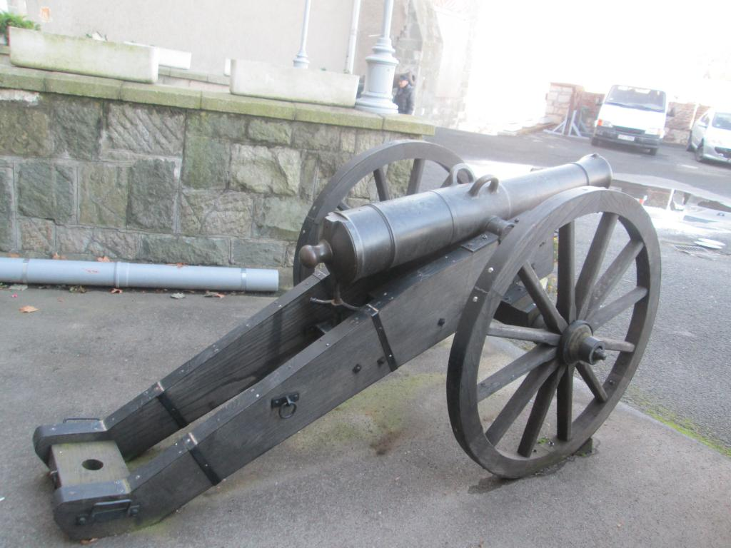 Howitzer used by Ottoman army at beggining of XIX century